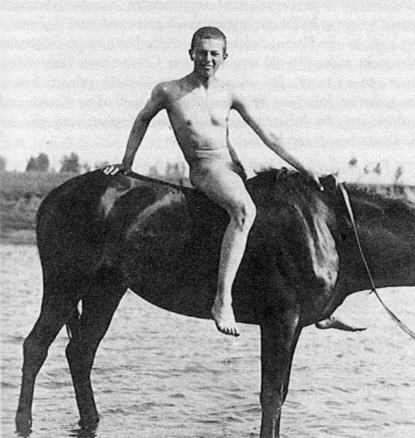 German Fahnenjunker (en: officer cadet; literal: colors junker) Otto Braun (1897-1918) in the age of 17 or 18 as dispatch rider in the replacement squadron of the Chaser Regiment on Horse No. 4 of the 17th Army Corps as part of the 8th German Army in summer of 1915 near Warsaw in Poland naked on a horse in a river.